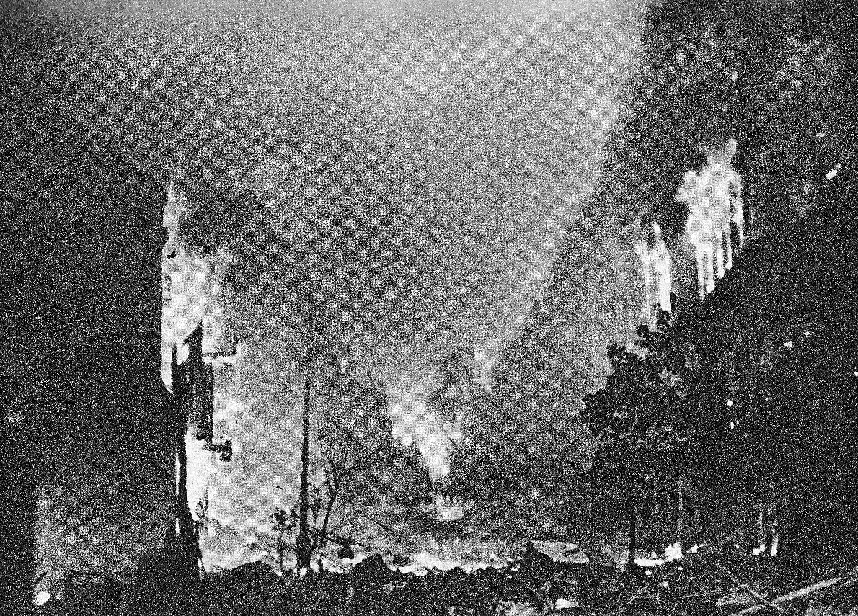 Marszałkowska Street in flames during Warsaw Uprising